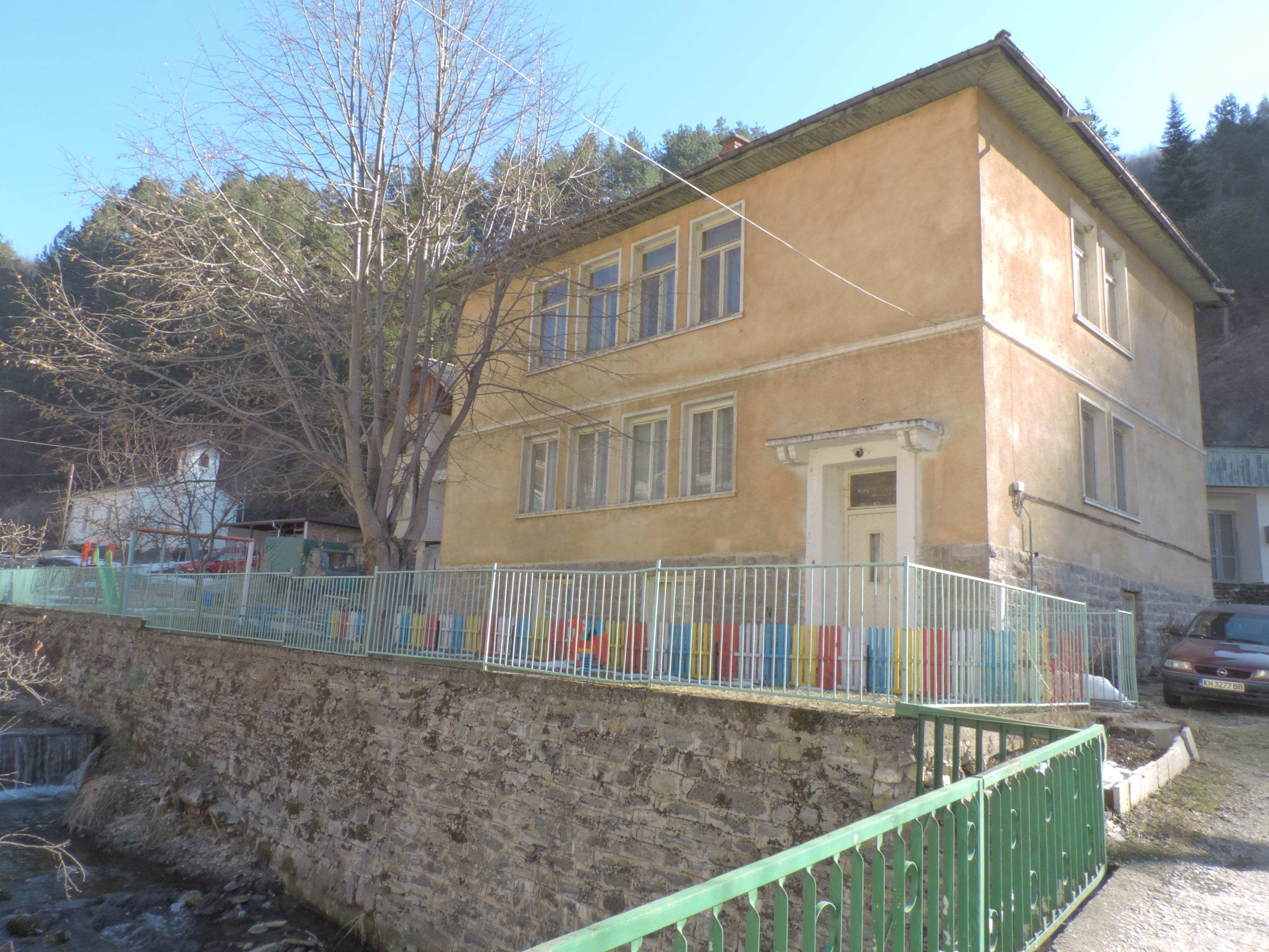 Village Mihalkovo, Devin Municipality, Smolyan Province, Bulgaria. The village's medical centre.